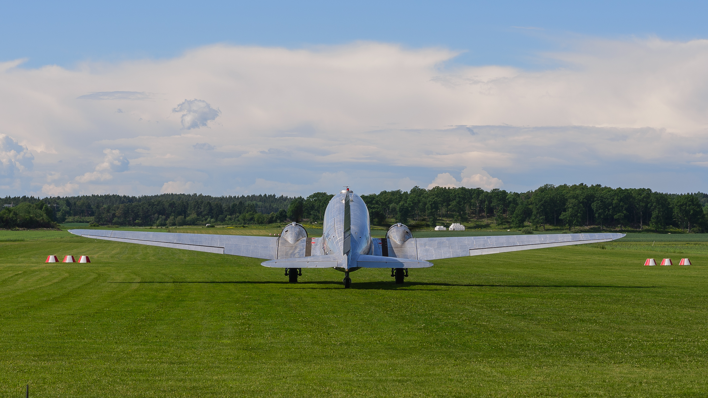 DC3 (SE-CFP) at Skå airfield, Stockholm County.